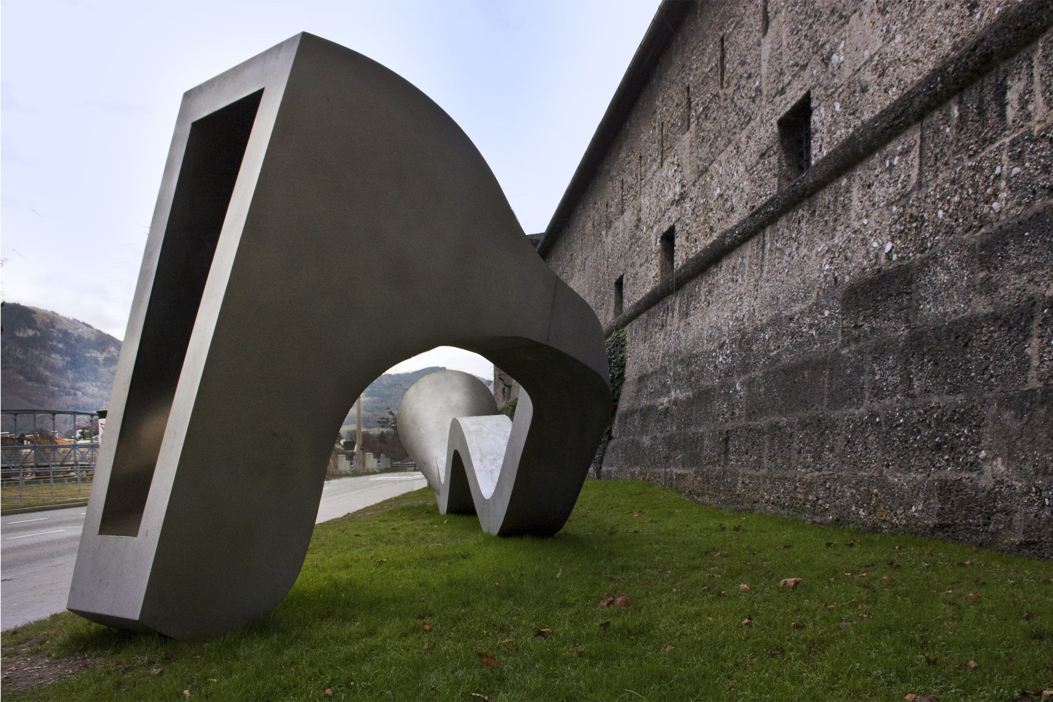 The skulpture "Connection" by Manfred Wakolbinger - Salzburg Foundation in Salzburg, Austria. Photographed by Horst Michael Lechner